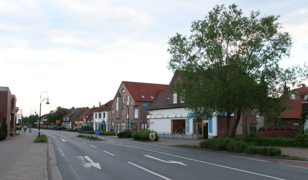 the city Wardenburg, another view, Niedersachsen, Germany